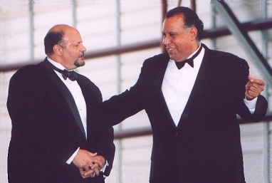 The Mills Brothers - John Mills (left) and Elmer Hopper - March 2005 John Mills - son, grandson and nephew of the original group’s members Elmer Hopper - spent 21 years with The Platters Photo by Alan C. Teeple User:ACT1